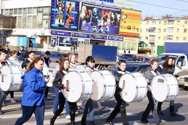 Project Steel, youth movement Nashi. Action drums drummers, activists use to attract attention and choke the slogans of the opposition.